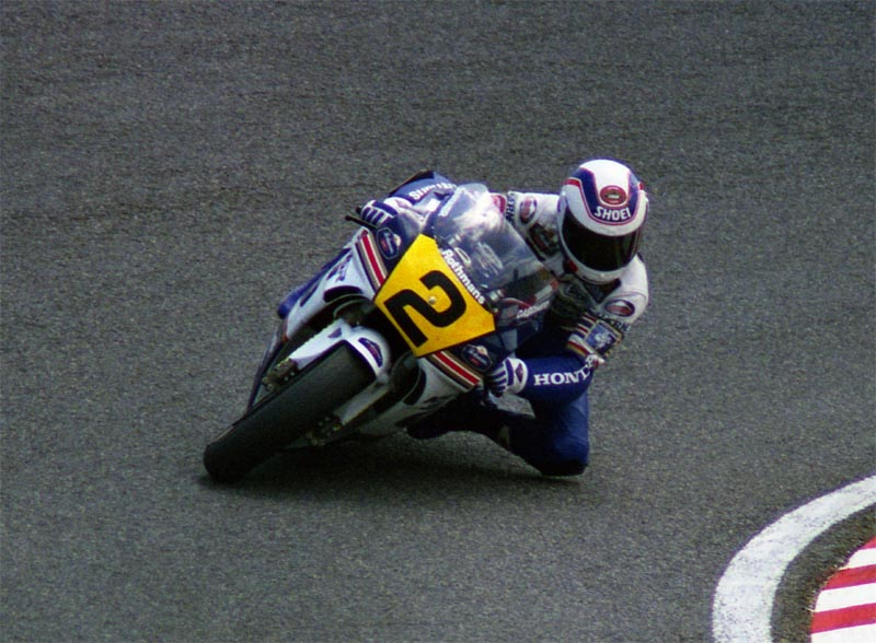 Wayne Gardner, in Japanese Grand Prix 1989